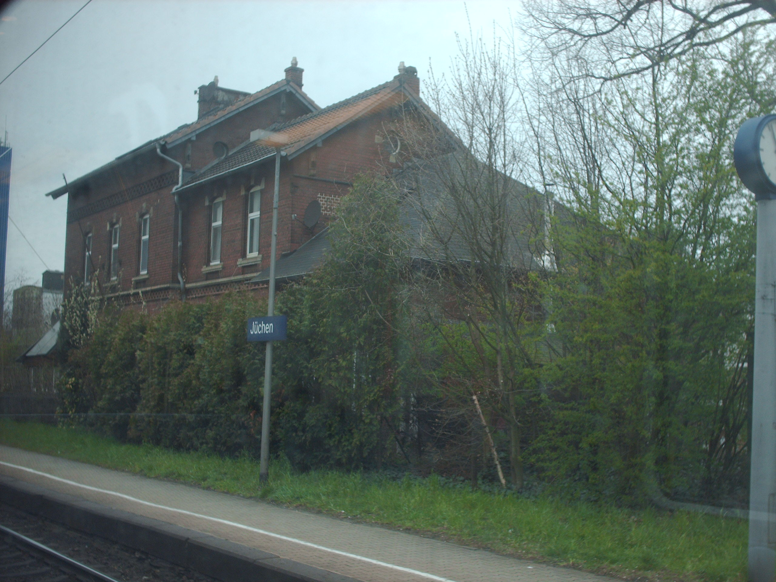 Jüchen station, Jüchen, Germany check usage